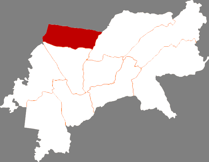 Location of Mingshui County in Suihua City, China